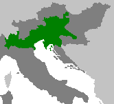 Working Community of Cantons, Provinces, Counties, Regions and Republics of East Alpine Region area